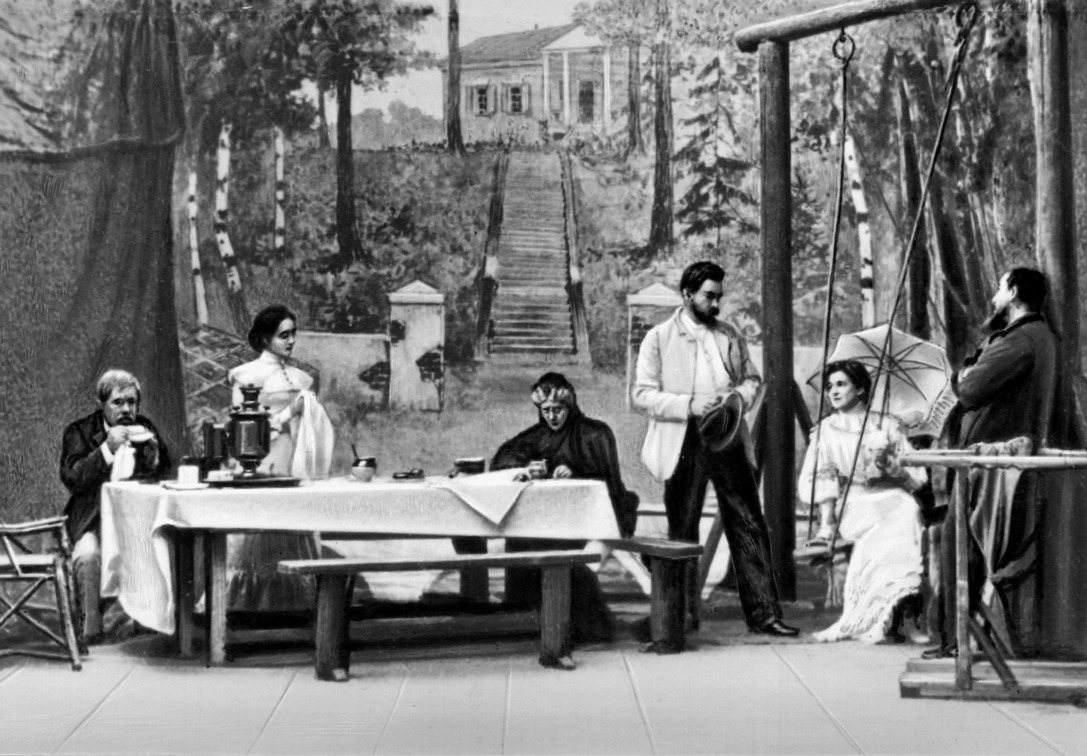 Scene from Uncle Vanya, Act I, Moscow Art Theater, 1899 (Olga Knipper as Elena, right)